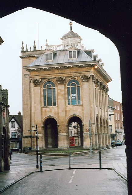 County Hall, Abingdon, Oxfordshire. This building was a created by Christopher Kempster (a pupil of Sir Christopher Wren) and is said to be the finest Town Hall in England. It currently houses Abingdon museum. Abingdon was once the county town of Berkshire before Reading. Photograph taken from The Abbey Gateway.